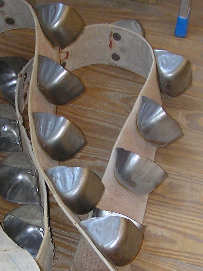 Buckets on belt, part of a bucket elevator